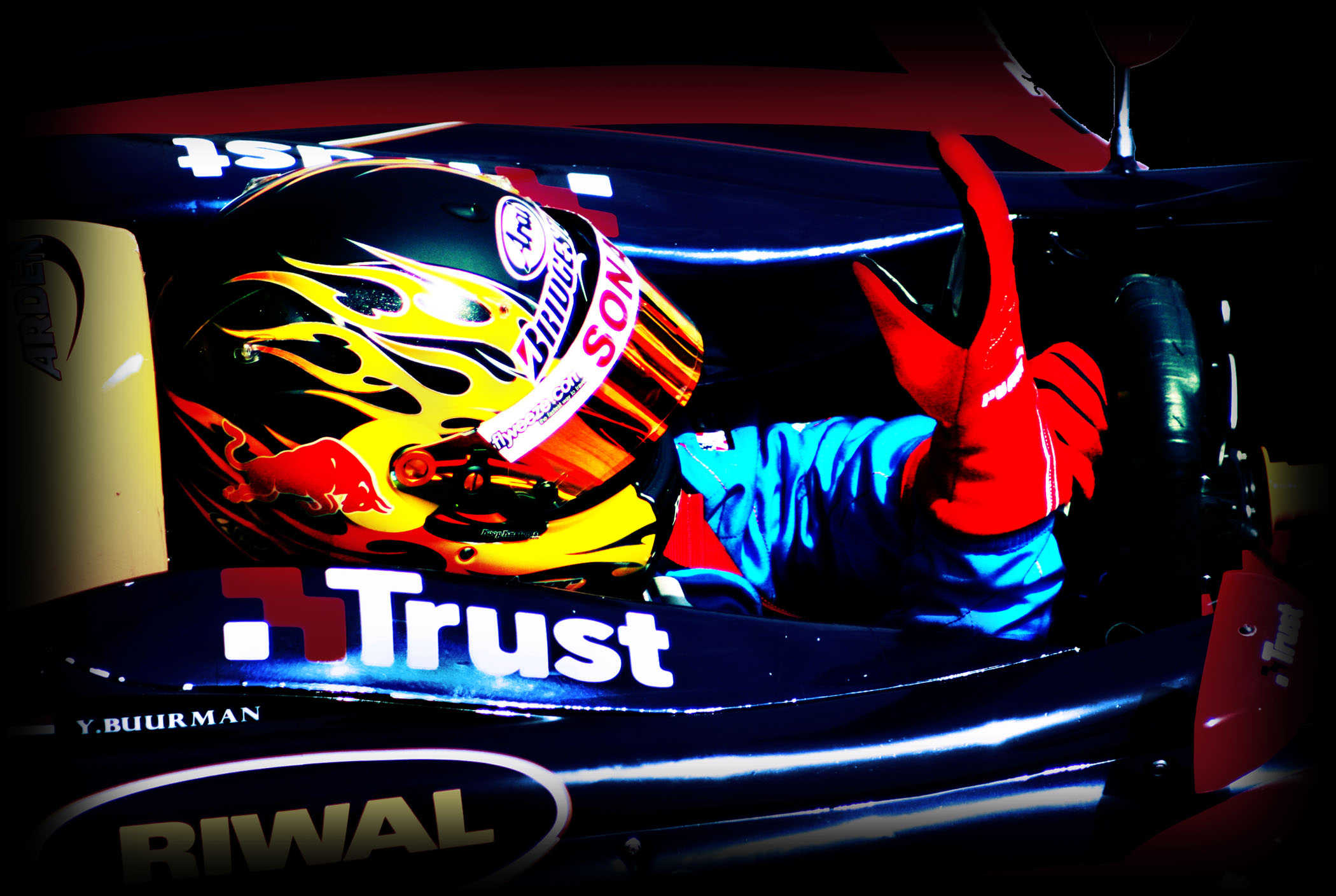 Yelmer Buurman in the cockpit of his Arden-run GP2 Series Asia car in Bahrain, April 2008.